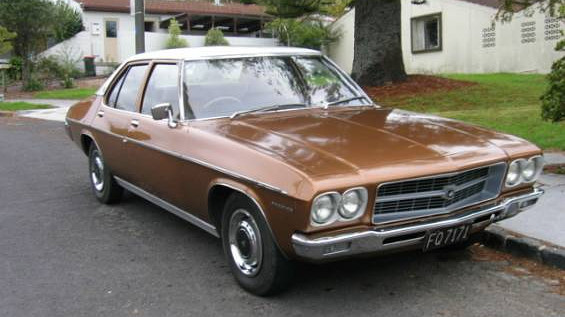 1971-1974 Holden HQ Premier.